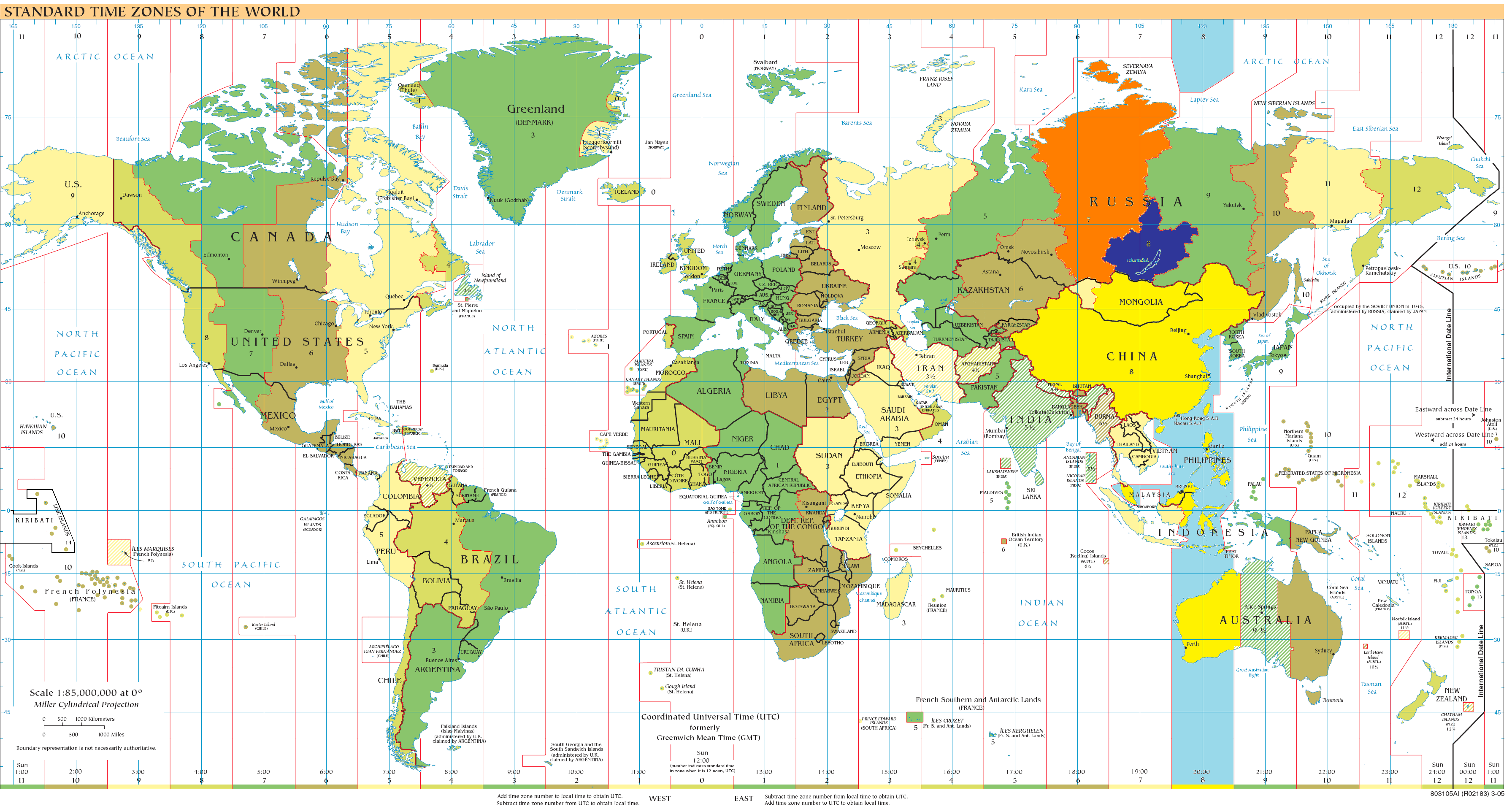 Copy of Timezones2008.png, showing UTC +8 Blue - UTC+8 in Northern Winter / Southern Summer Orange - UTC+8 in Southern Winter / Northern Summer Yellow - UTC+8 all year